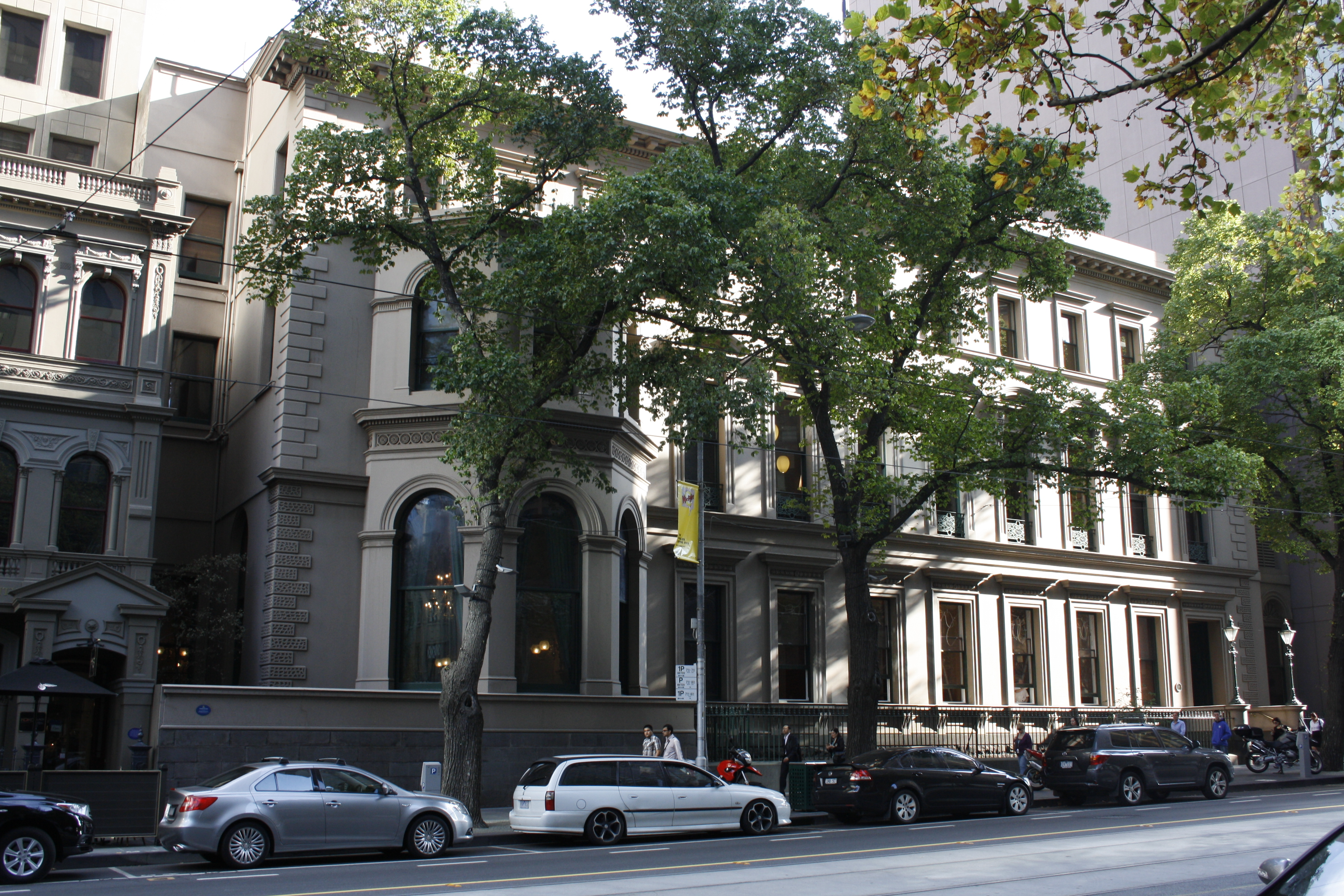 Melbourne Club, Melbourne. Identified by blue plaque.